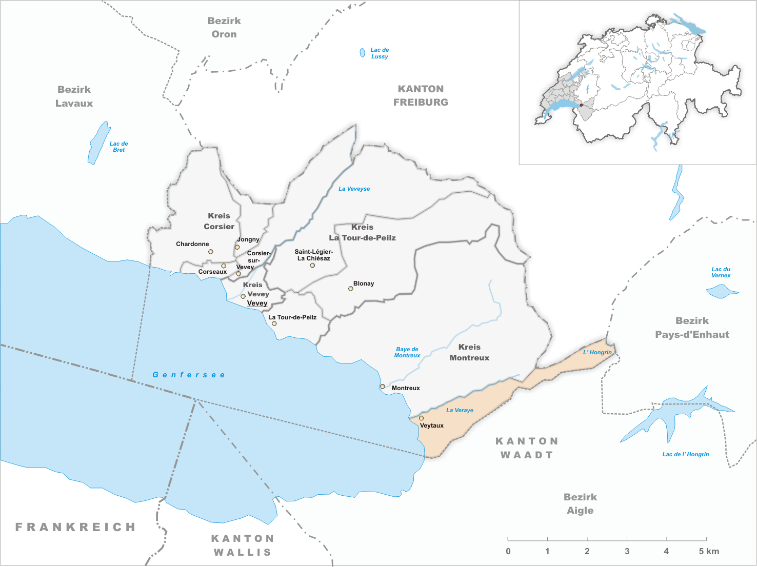 Municipality Veytaux